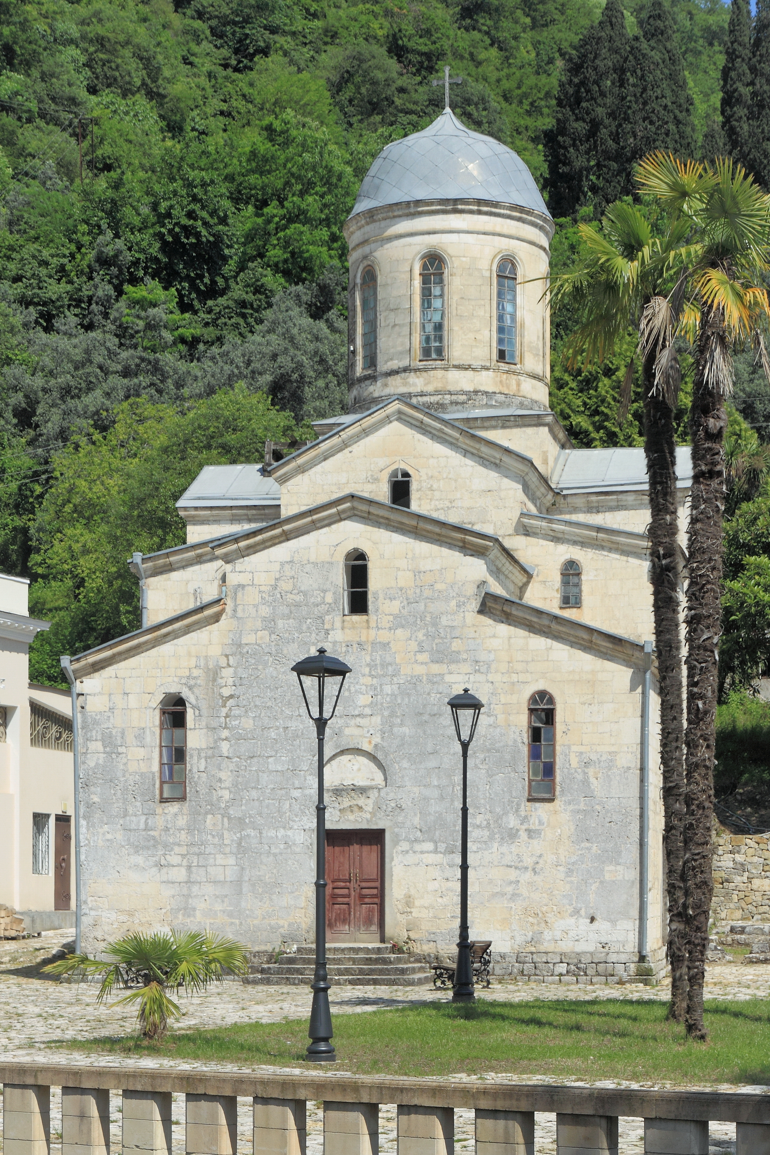 St. Simon the Canaanite church. New Athos, Gudauta District, Abkhazia.